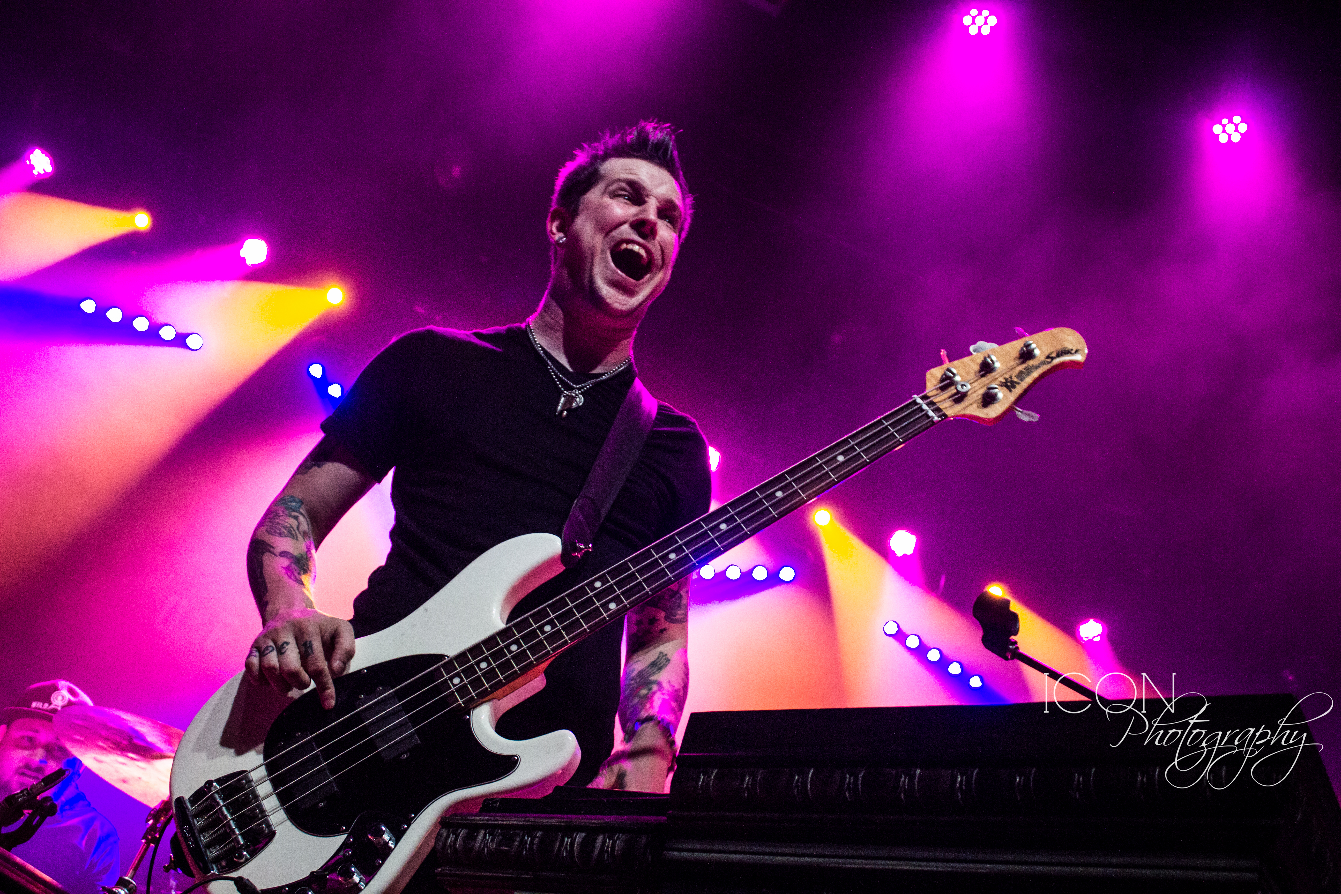 Tyler Voss is the bass player of Wild Fire.